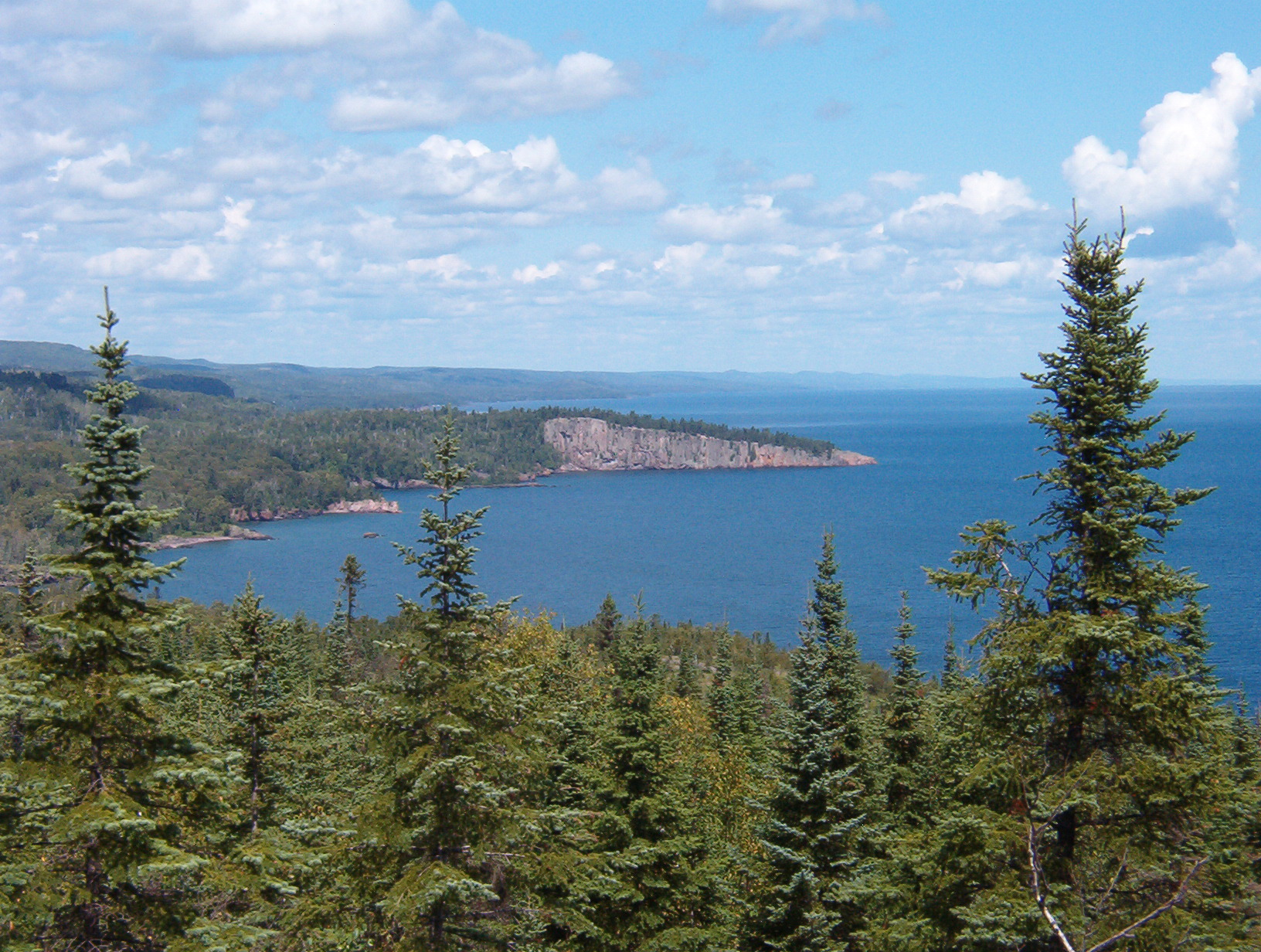 Tettegouche State Park in Minnesota on the North Shore of LakeSuperior; photo taken from Palisade Head (foreground) looking NE to Shovel Point (midground) and Sawtooth Mountains (distant background).